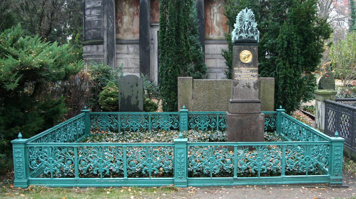 Tomb of Schinkel in Berlin